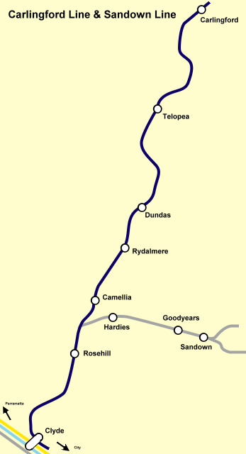 For City Rail Carlingford Line, New South Wales.